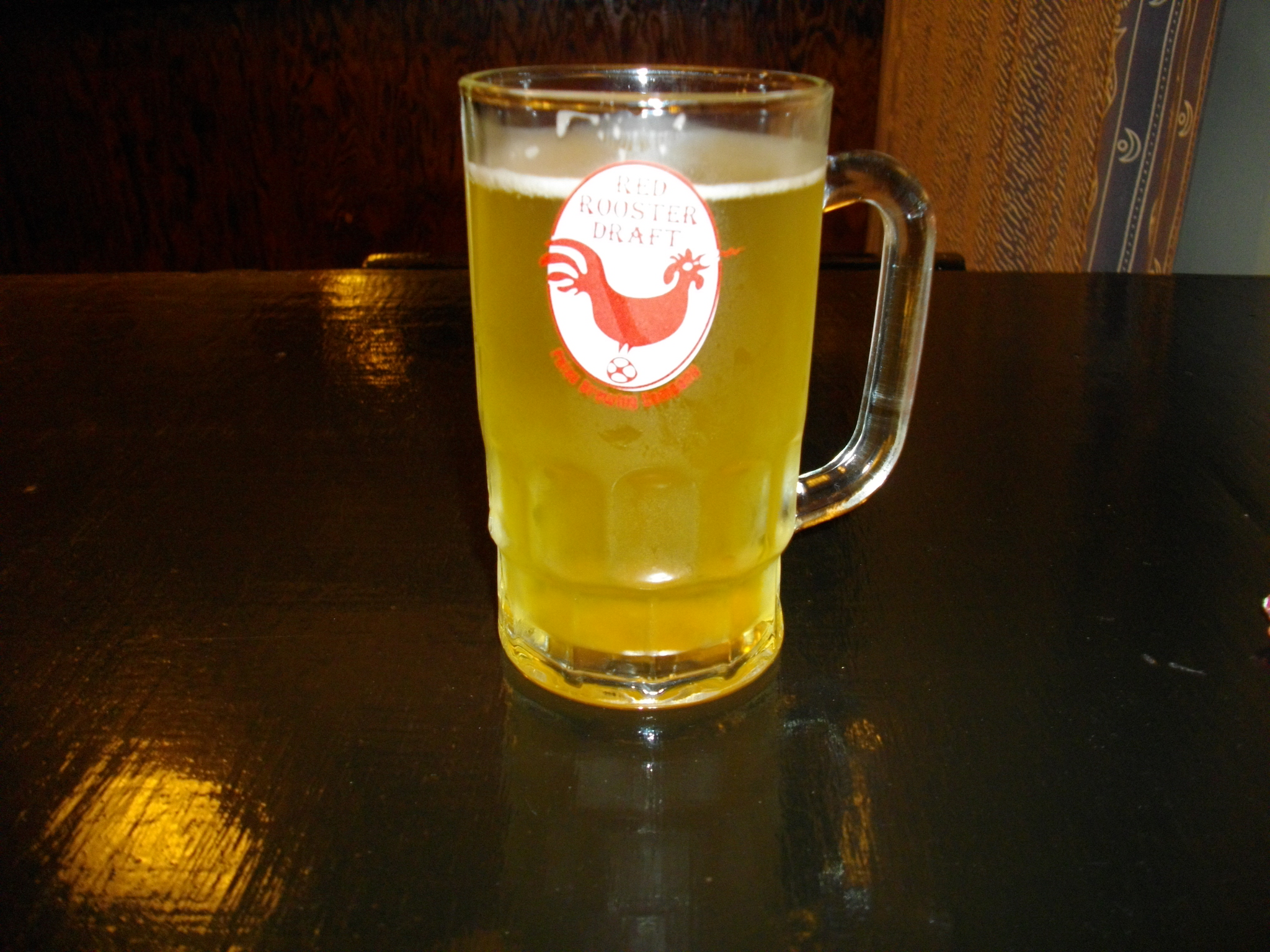 Red Rooster Beer